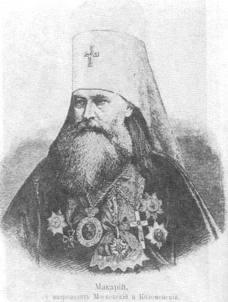 Metropolitan Macarius Bulgakov